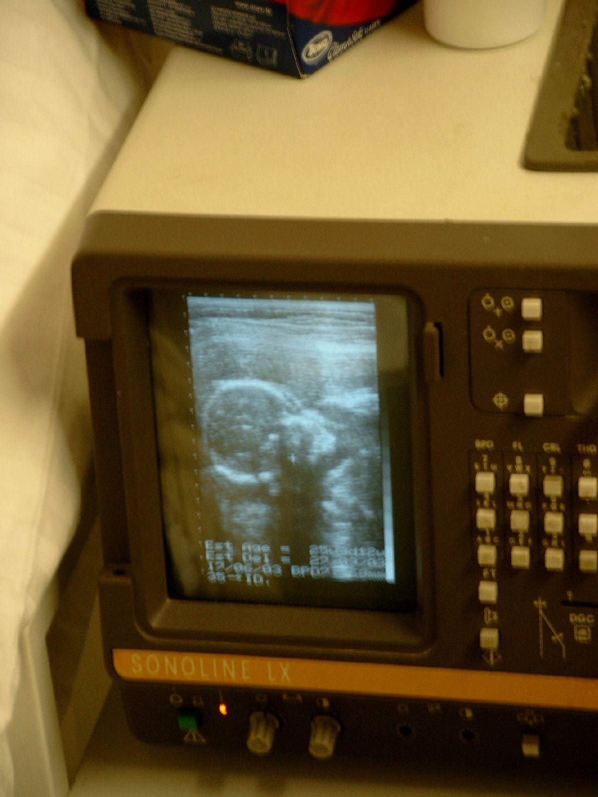 ultrasound machine showing a fetuses head